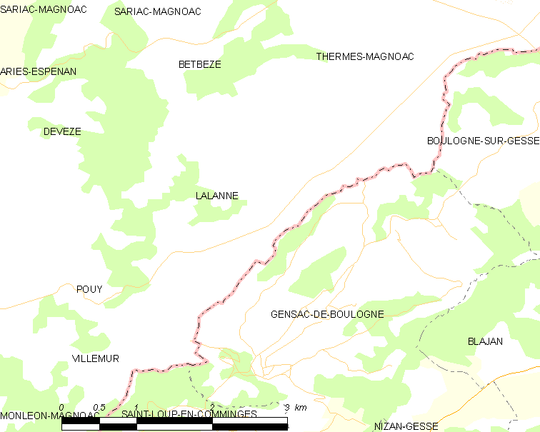 Map of French municipality